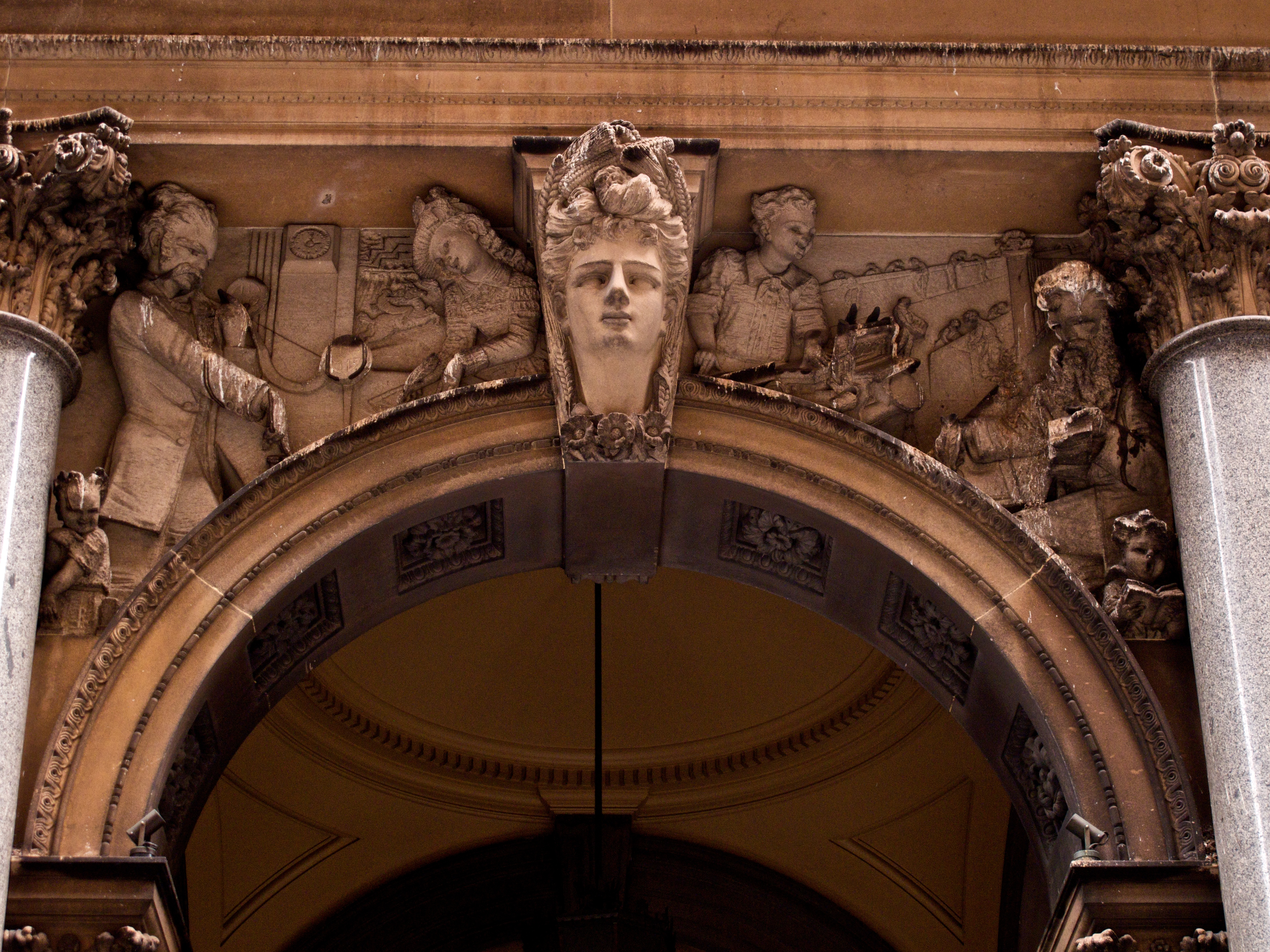 Faces on the facade of the General Post Office in Sydney, Australia.